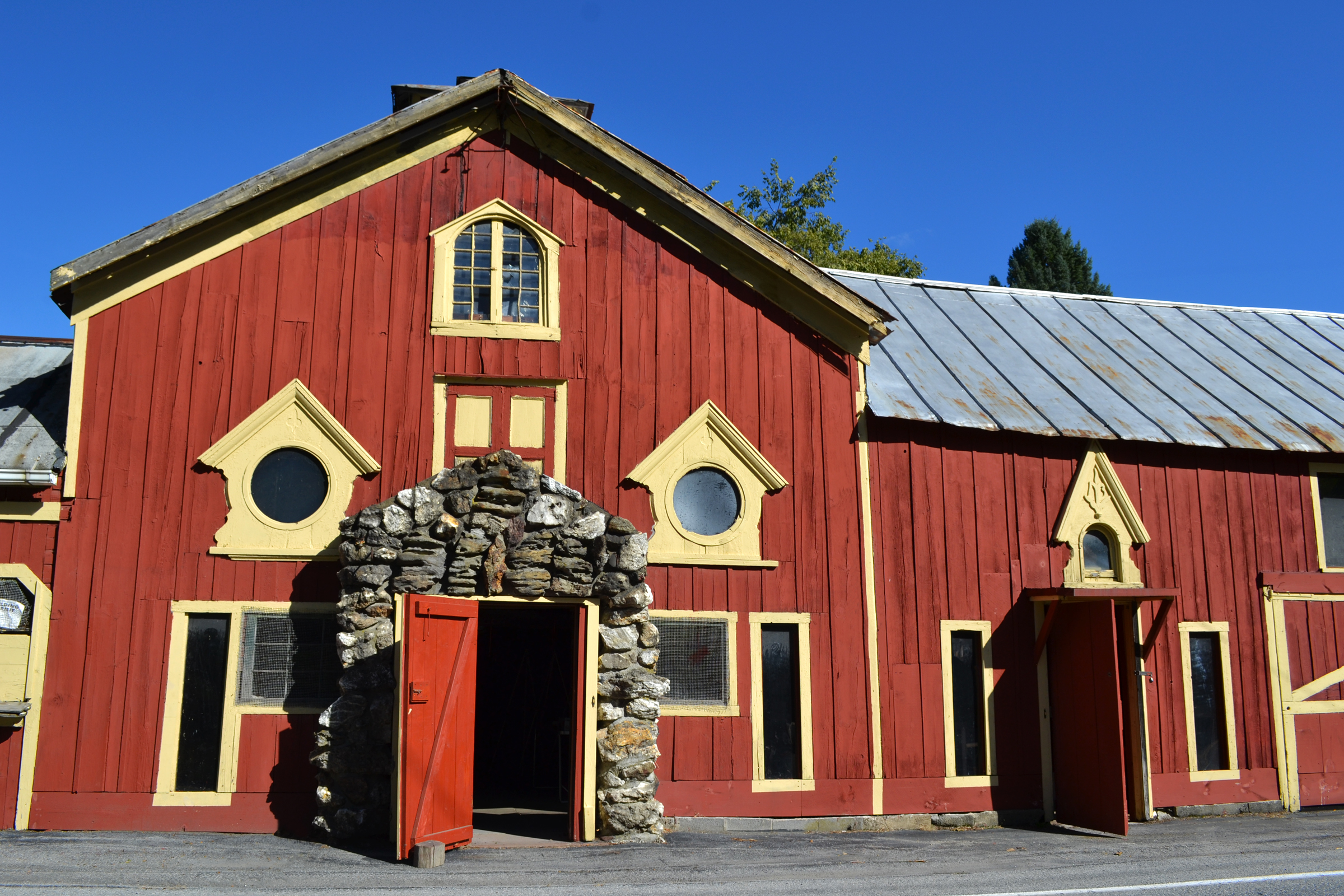 Western (front) elevation of Kimlin Cider Mill, Poughkeepsie, New York.